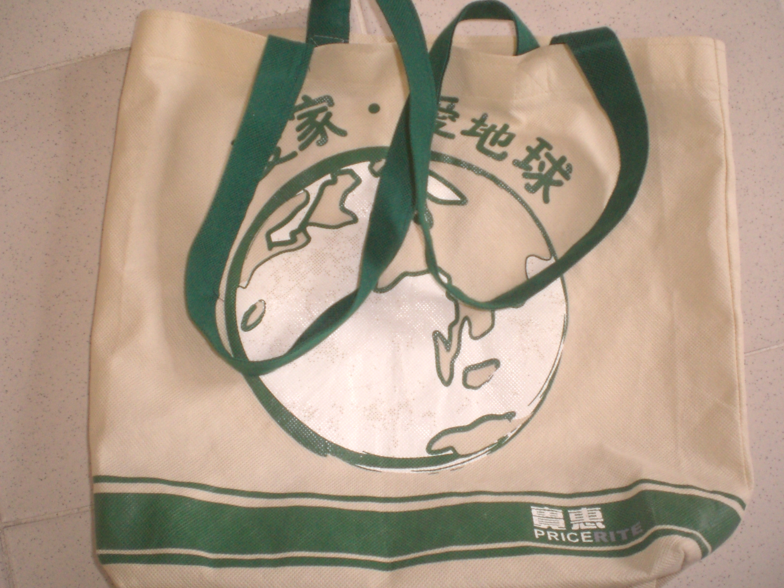 Nonwoven fabric reusable shopping bag from the Hong Kong-based chain store PriceRITE